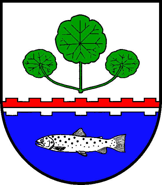 Coat of arms of the municipality Hitzhusen in Schleswig-Holstein, Germany.